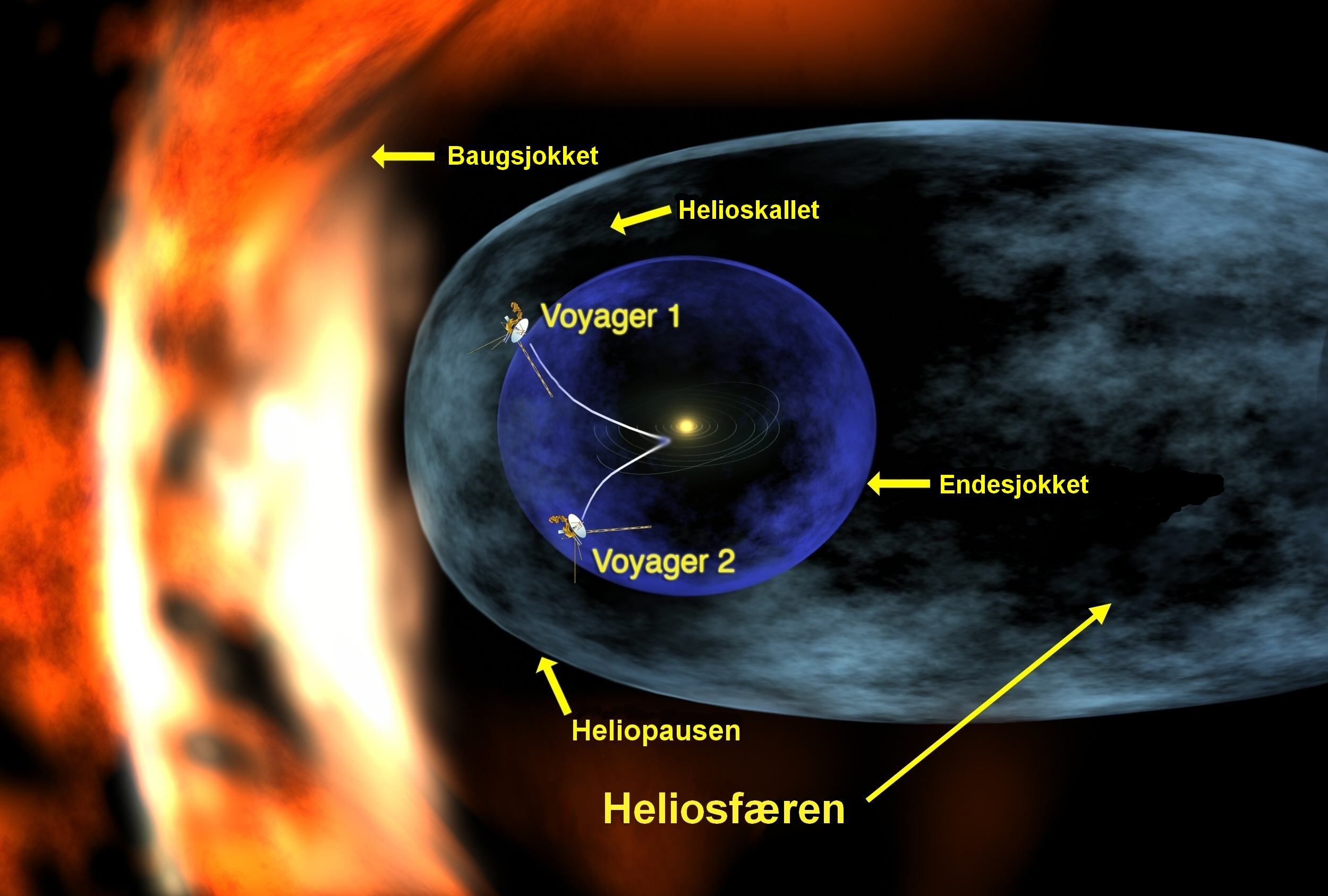 This still shows the locations of Voyagers 1 and 2. Voyager 1 is traveling a lot and has crossed into the heliosheath, the region where interstellar gas and solar wind start to mix.